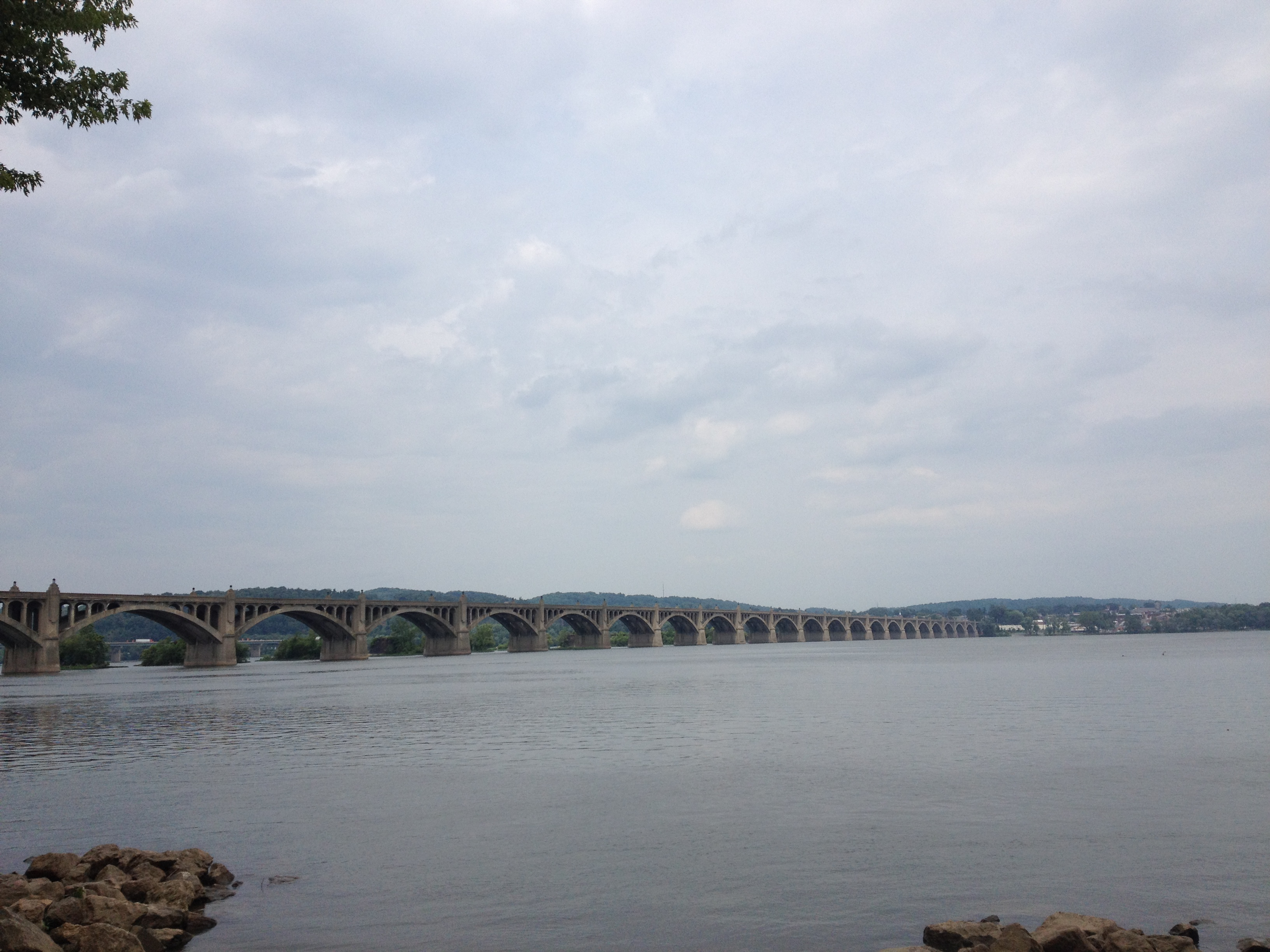 The Columbia-Wrightsville Bridge carrying Pennsylvania Route 462 over the Susquehanna River, viewed from Wrightsville looking east toward Columbia.